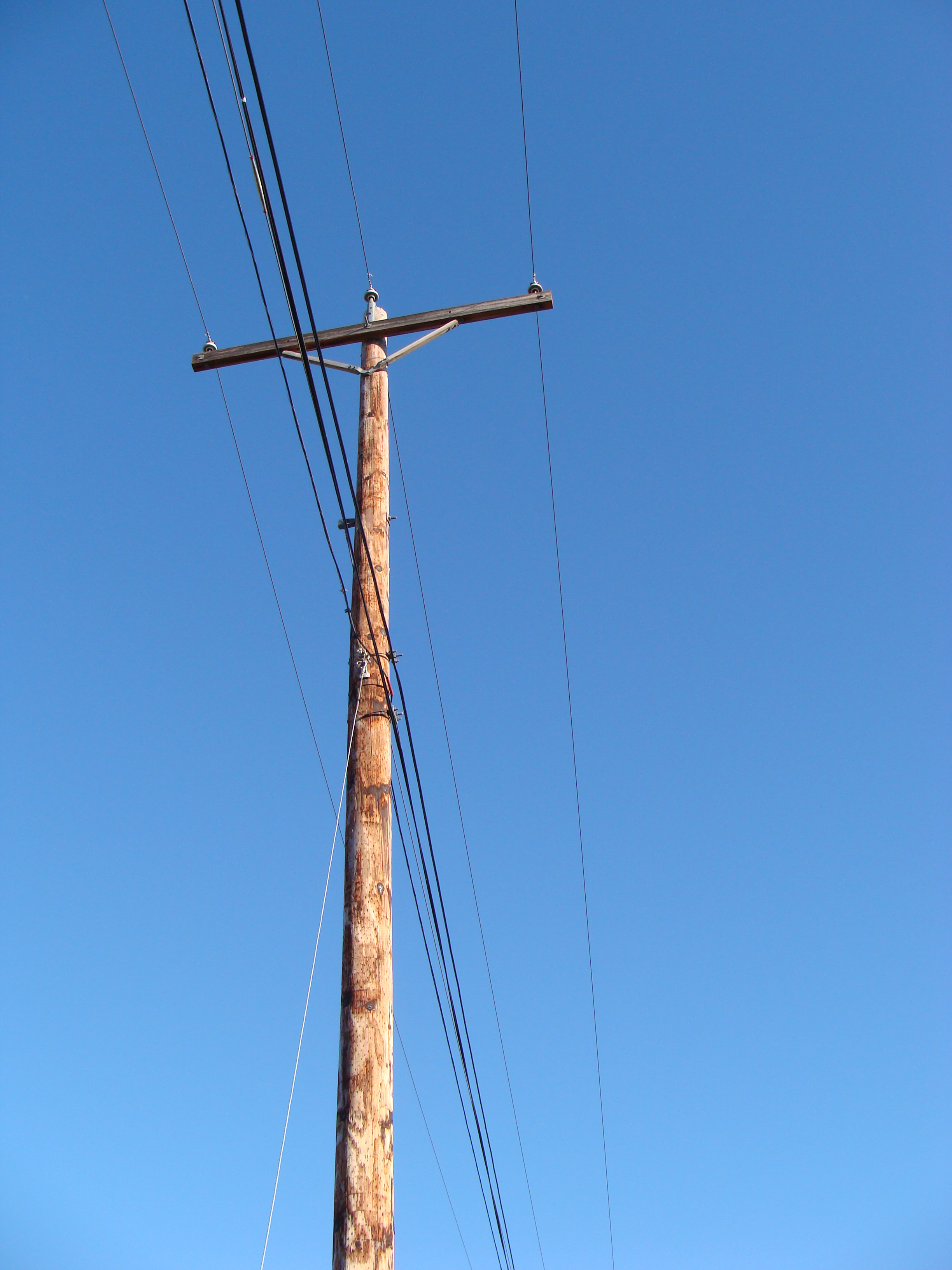 A wooden pole of a single-circuit power line with additional (telephone?) cables installed below; unidentified location.